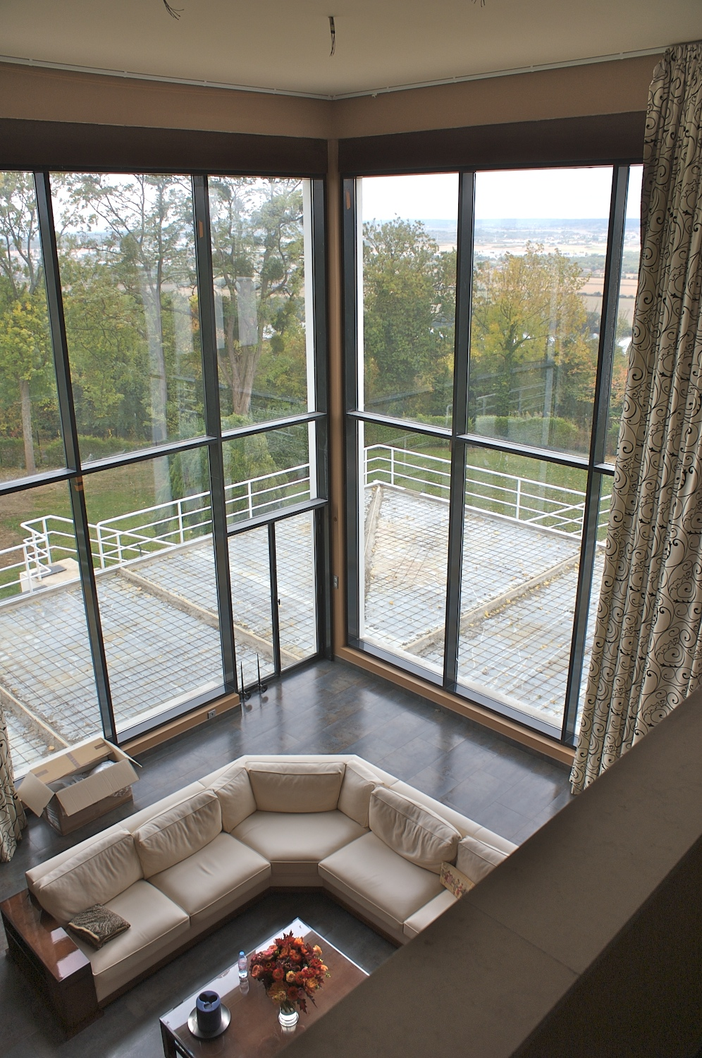 Villa Poiret by Rob Mallet Stevens in Mézy-sur-Seine, France